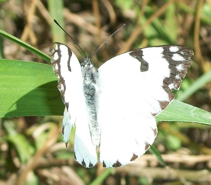 Male Belenois zochalia from the Karkloof area of KwaZulu-Natal, South Africa.